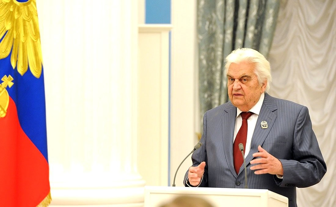 Ceremony awarding prizes for young cultural professionals and for works for children.